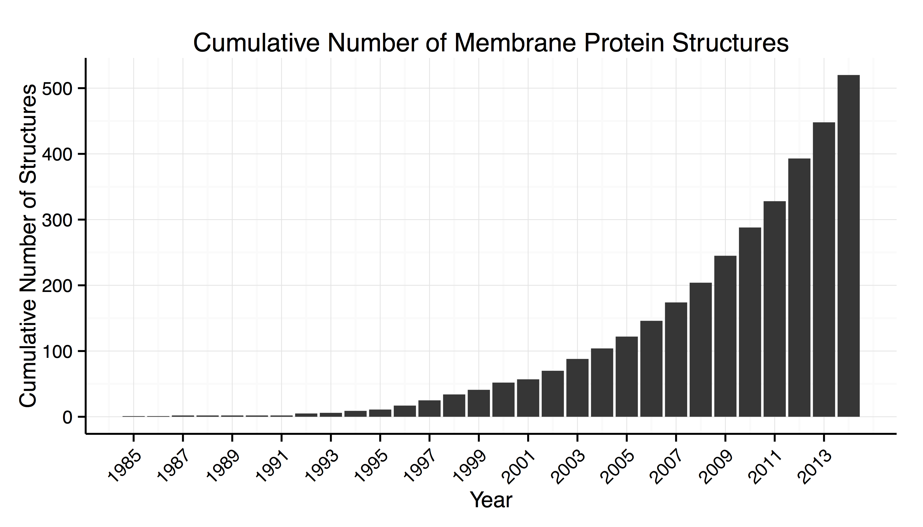 Cumulative Unique Membrane Protein Structures by Year. Data from